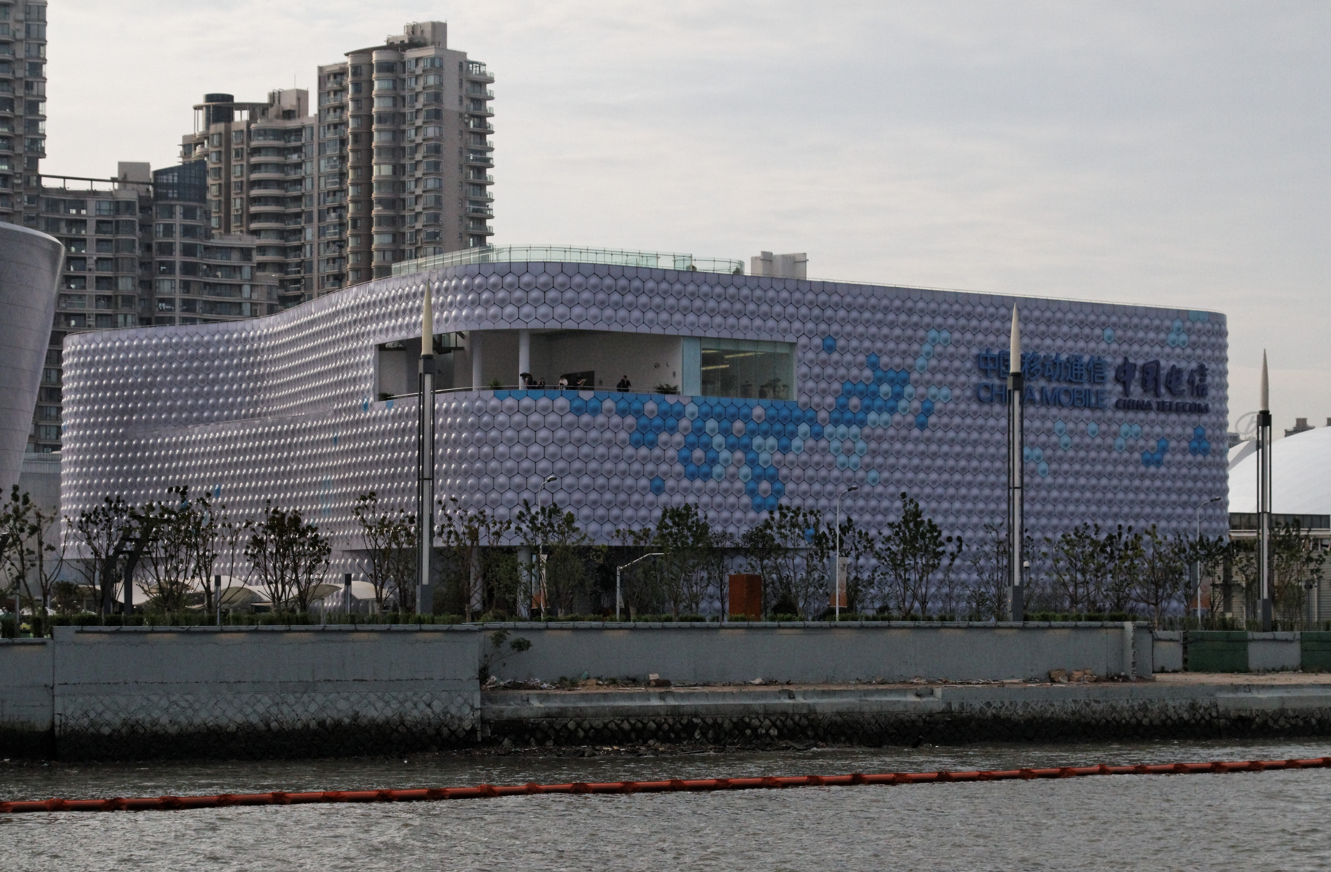 Information and Communications Pavilion from Expo 2010, river view